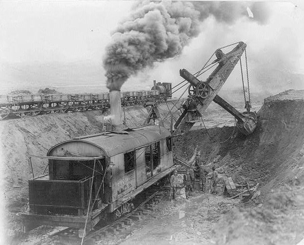 Cropped by the uploader. Title: Steam shovel doing construction work for the Western Pacific Railroad Creator(s): Thompson, P. J., copyright claimant Date Created/Published: c1906. Medium: 1 photographic print. Summary: Photograph shows railroad construction workers with steam shovel in operation digging during the construction of the Western Pacific Railroad. Reproduction Number: LC-USZ62-29487 (b&w film copy neg.) LC-USZ62-34573 (b&w film copy neg. of another copy) Rights Advisory: No known restrictions on publication. Call Number: SSF - Railroads -- Construction and Maintanance -- 1906 [item] [P&P] Repository: Library of Congress Prints and Photographs Division Washington, D.C. 20540 USA Notes: Copyright 1906 by P. J. Thompson, Loyalton, Cal. Title from copyright registration: Steam shovel. West Pac. construction work. Title from item. Subjects: Western Pacific Railroad Company. Railroad construction & maintenance--1900-1910. Railroad construction workers--1900-1910. Steam shovels--1900-1910. Digging--1900-1910. Format: Photographic prints--1900-1910. Collections: Miscellaneous Items in High Demand Bookmark This Record